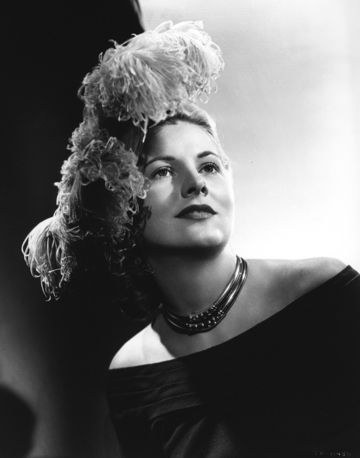 Actress Joan Fontaine